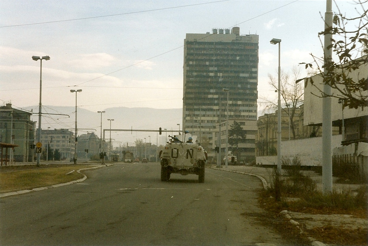 Norwegian Sisu from NORLOGBAT APC at "Sniper Alley" in Sarajevo, December 1995